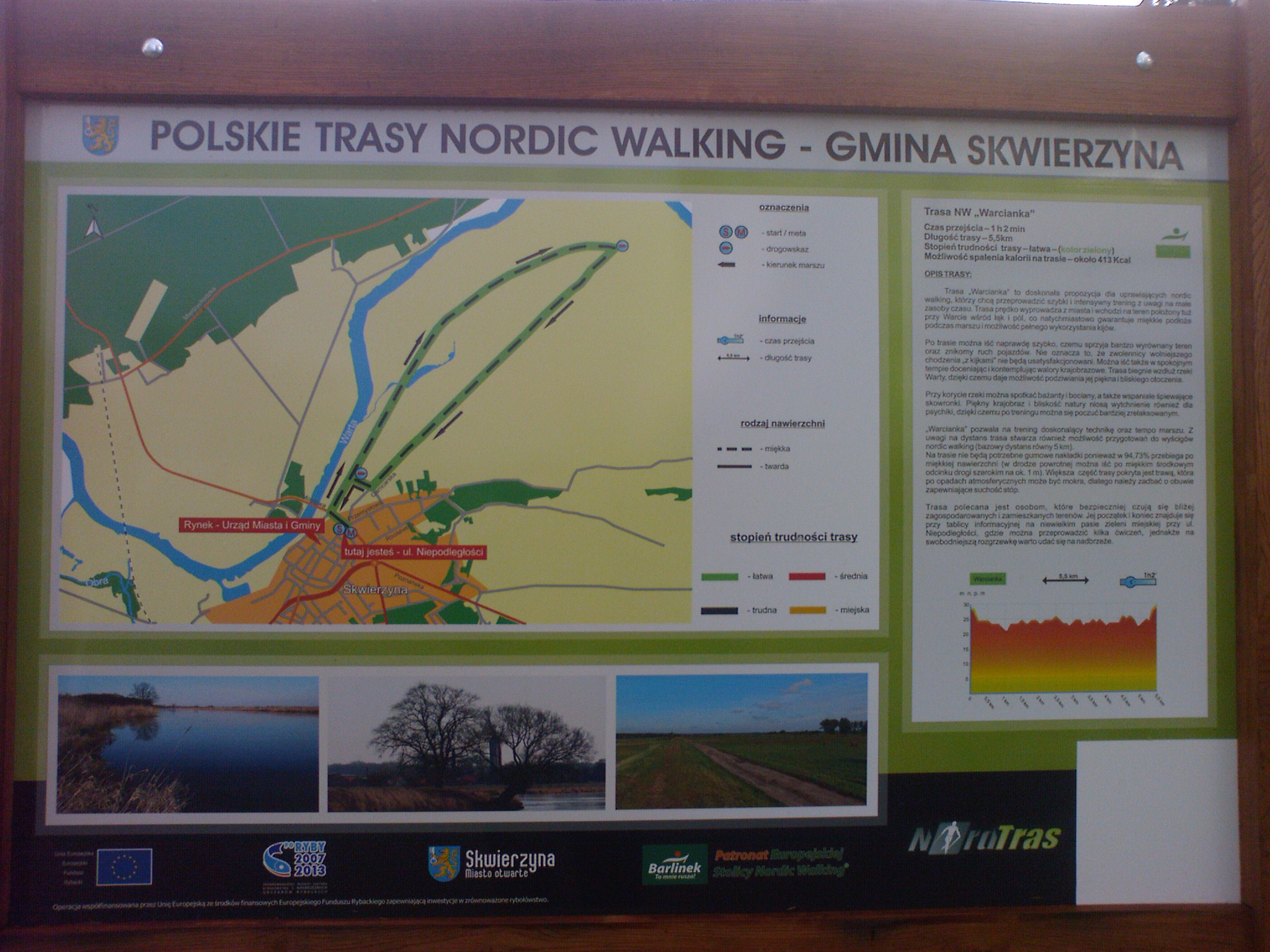 Nordic walking route in Skwierzyna, Lubuskie, Poland